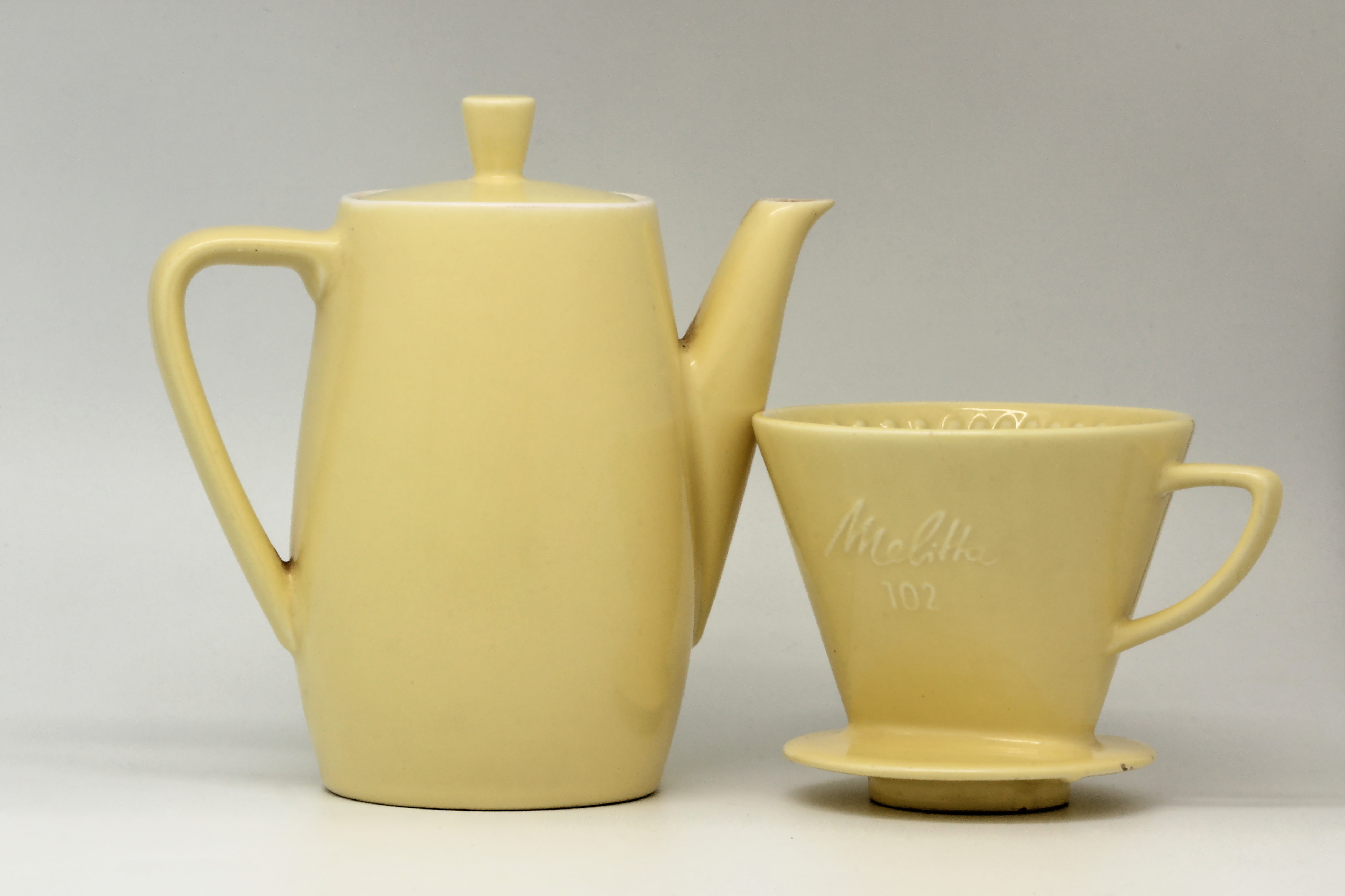 Melitta 14-100 coffeemaker, filter size: 102.